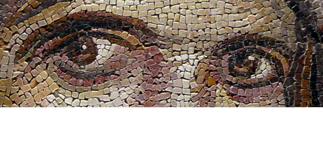 Photographs from Antep Museum Description Photographs from Antep Museum. Edited version: Perspective cropped to a detail of eyes. Date23 December 2009, 17:33 (UTC)Source Antep_1250575.jpg Author Antep_1250575.jpg: Nevit Dilmen (talk) derivative work: İazak (talk) 16:05, 23 December 2009 (UTC) (talk) Other versions File:The Gypsy Girl Mosaic of Zeugma 1250575.png Photographs from Antep Museum. Edited version: Perspective cropped to a detail of eyes.